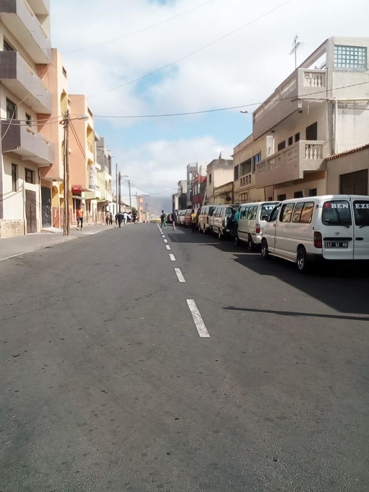 Cutelo